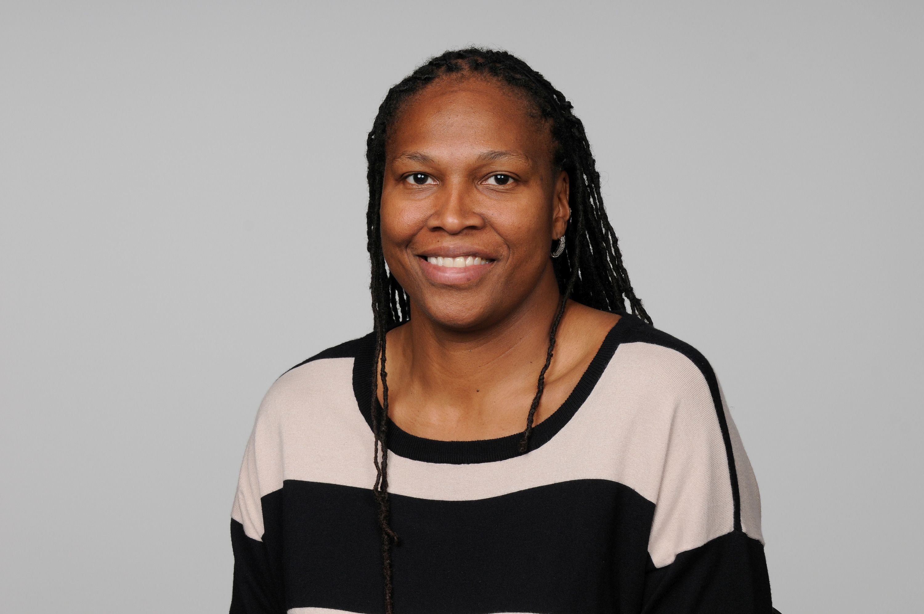 Griffith Yolanda Headshot